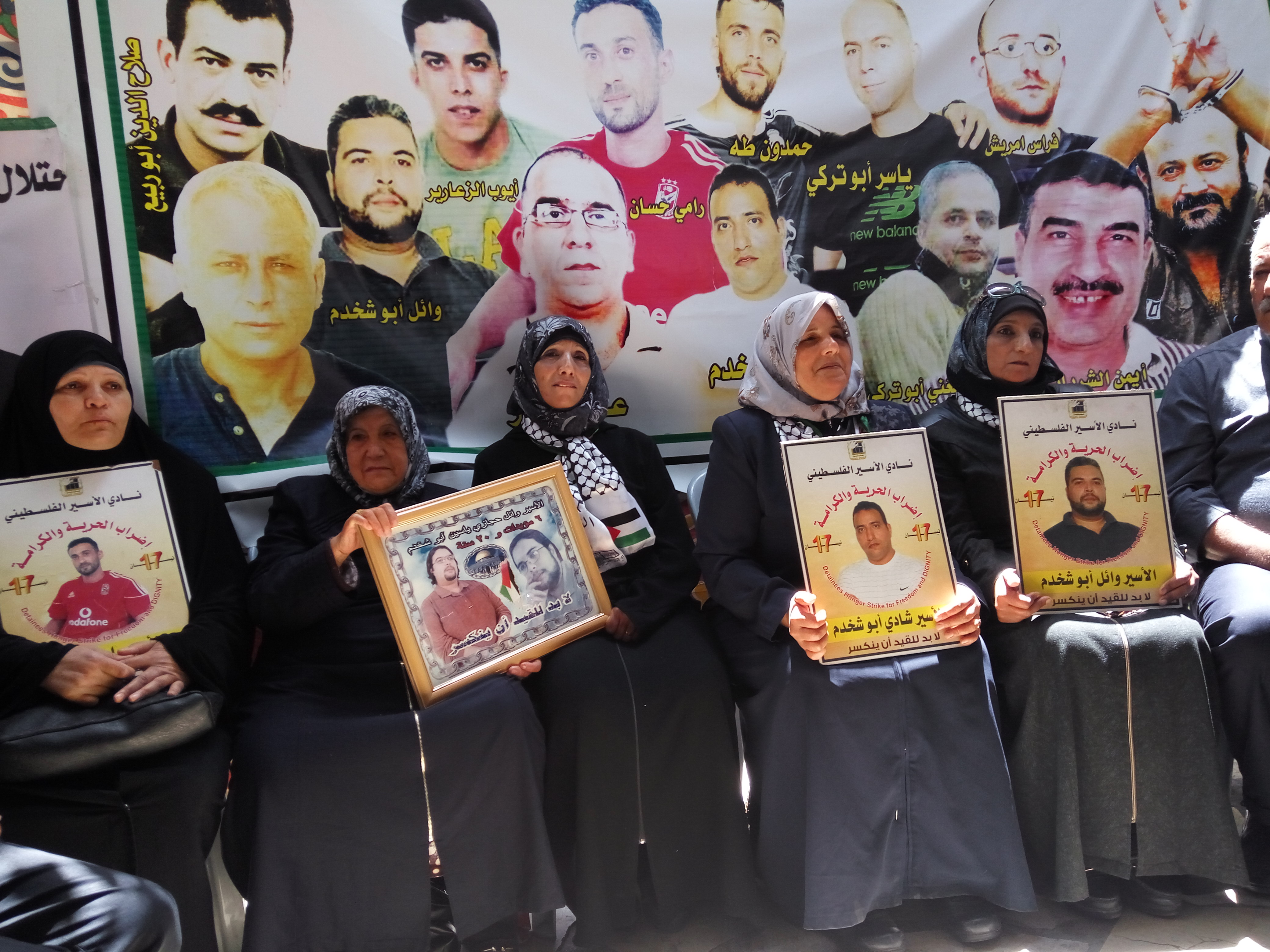 Familly mambers in solidarity tent palestinians prisioners in hynger strike Hebron May 2017.